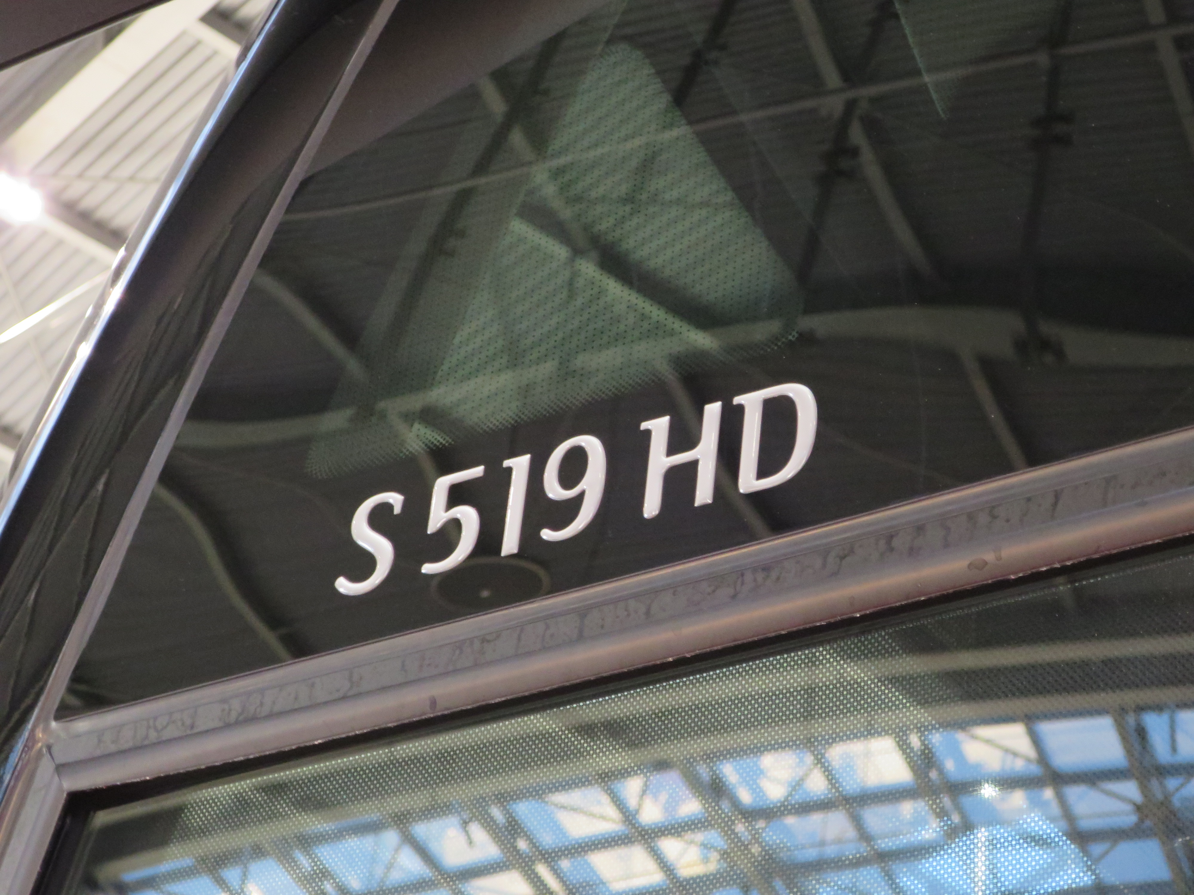 The making of this document was supported by Wikimedia Polska Association, within Wikigrant no. WG 2016-45. Setra S 519 HD